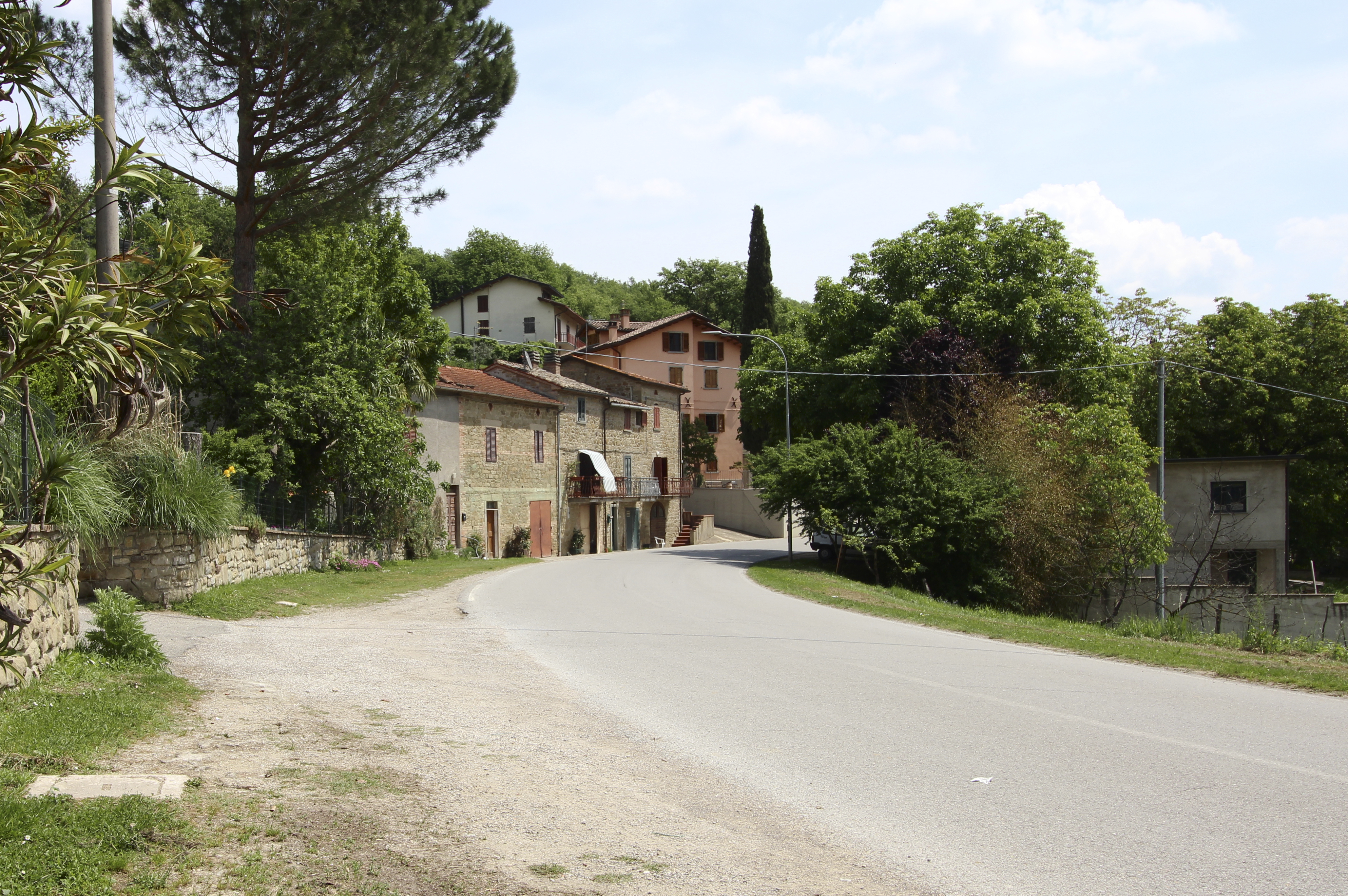 San Leo Bastia, hamlet of Città di Castello, Province of Perugia, Umbria, Italy